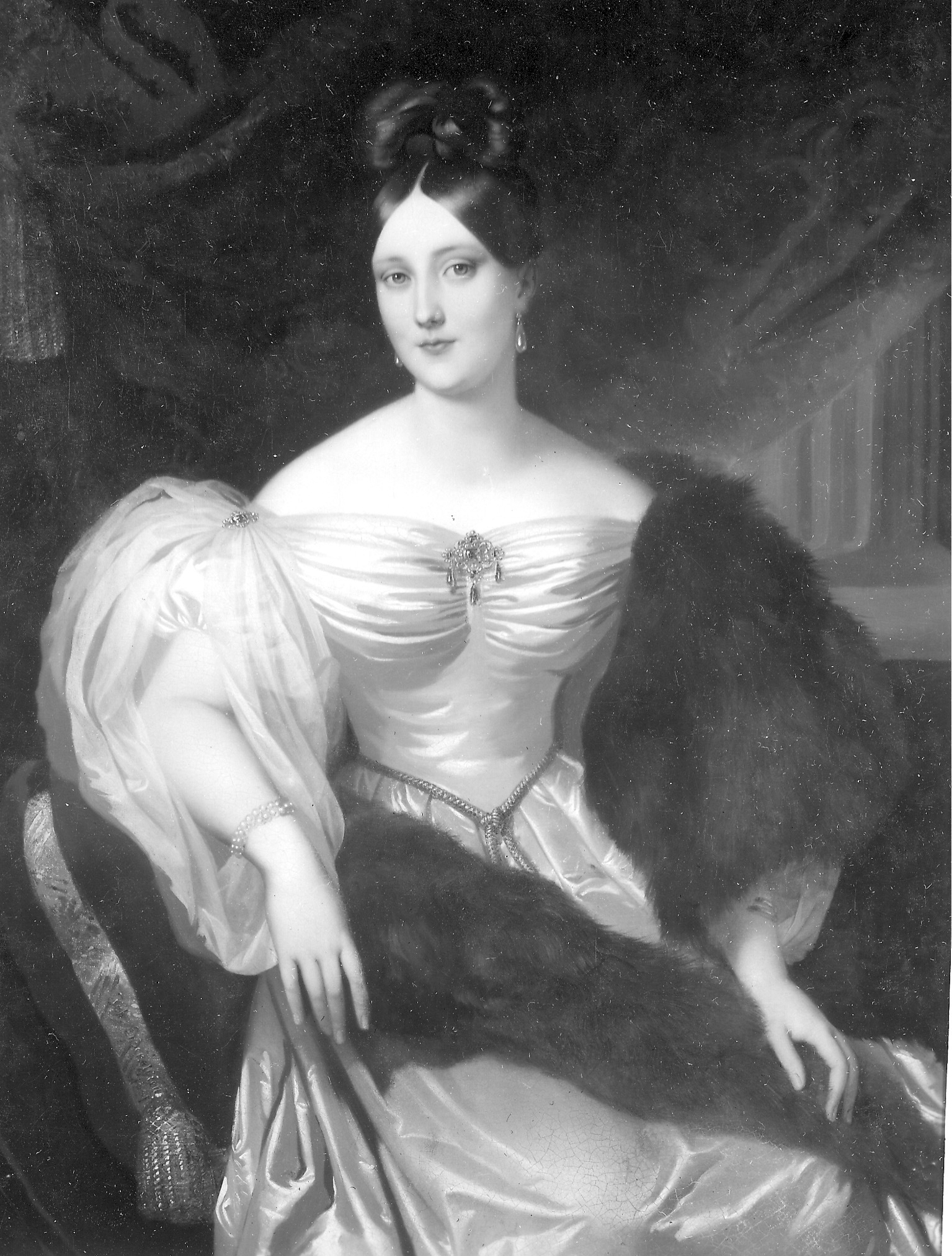 Princess Louise Amelie of Baden (1811-1854), later Princess Louise of Wasa